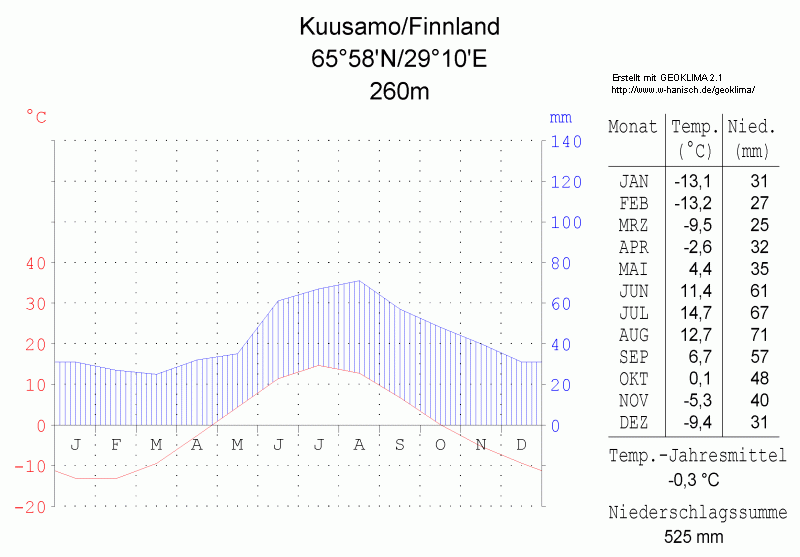 climate chart in the format by Walther and Lieth, metric, °Celsisus and millimeters, made with Geoklima 2.1